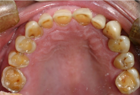 Maxillary occlusal view of severe tooth erosion caused by endogenous acid in a patient with GERD